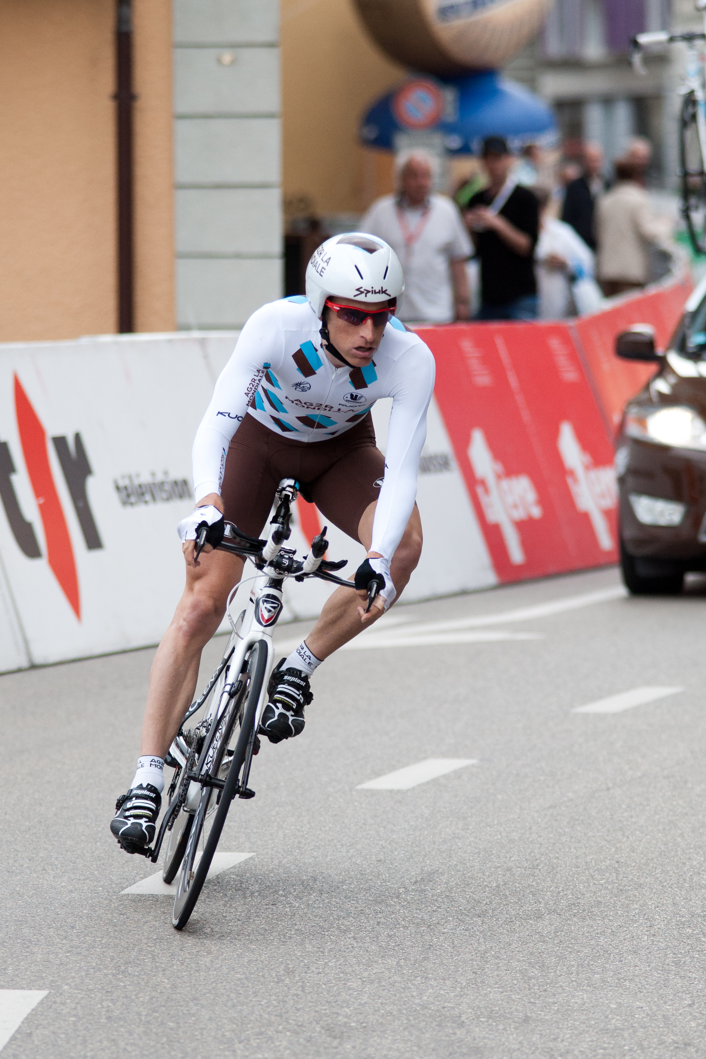 Martin Elmiger during the 3rs stage of the Tour de Romandie 2010.